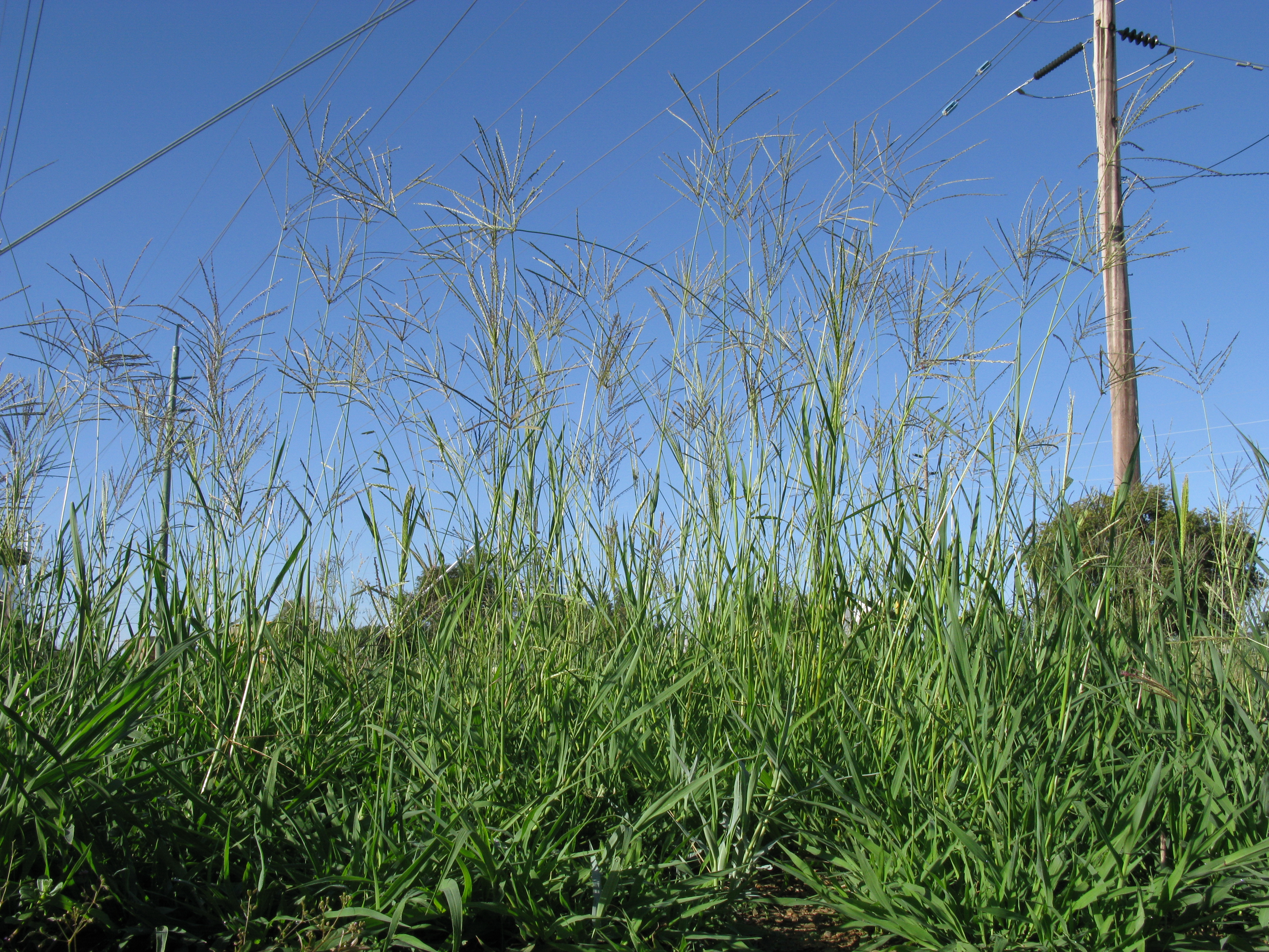 Introduced warm-season perennial tufted C4 grass with spreading crowns; stems are fine, hairless and to 1.5 m tall. Leaves are grey-green, 6-20 mm wide and nearly hairless. Flowerheads are subdigitate with 4-14 racemes usually in 3 whorls, about 7-17 cm long and brownish-purple when immature and brownish grey when mature. Spikelets are paired, 2-flowered, shortly-hairy and 2-4 mm long. Flowers in summer. A native of Africa, it is a sown species in the north with one variety Premier. Grows on a range of soil types, but is best suited to light-medium textured low-fertility soils. Good drought and frost tolerance, but is sensitive to waterlogging. Recruits well on light-medium textured soils. Can produce some growth in winter and commences growth in late winter-early spring, much earlier than most other tropical grasses. Very palatable, has low oxalate levels (i.e. suitable for horses) and tolerates close grazing.